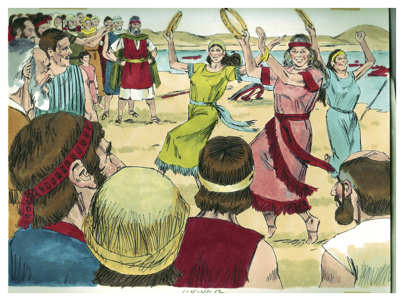 Biblical illustration of Book of Exodus Chapter 16